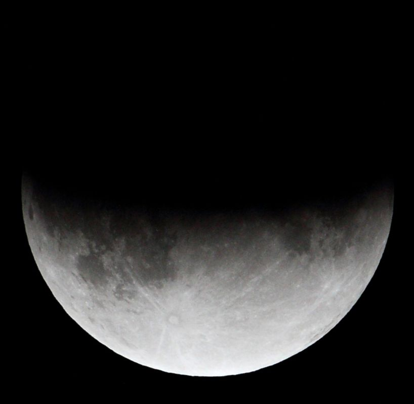 Lunar eclipse on June 26 2010 close to maximum. Viewed from Canberra, Australia. Rotated south down